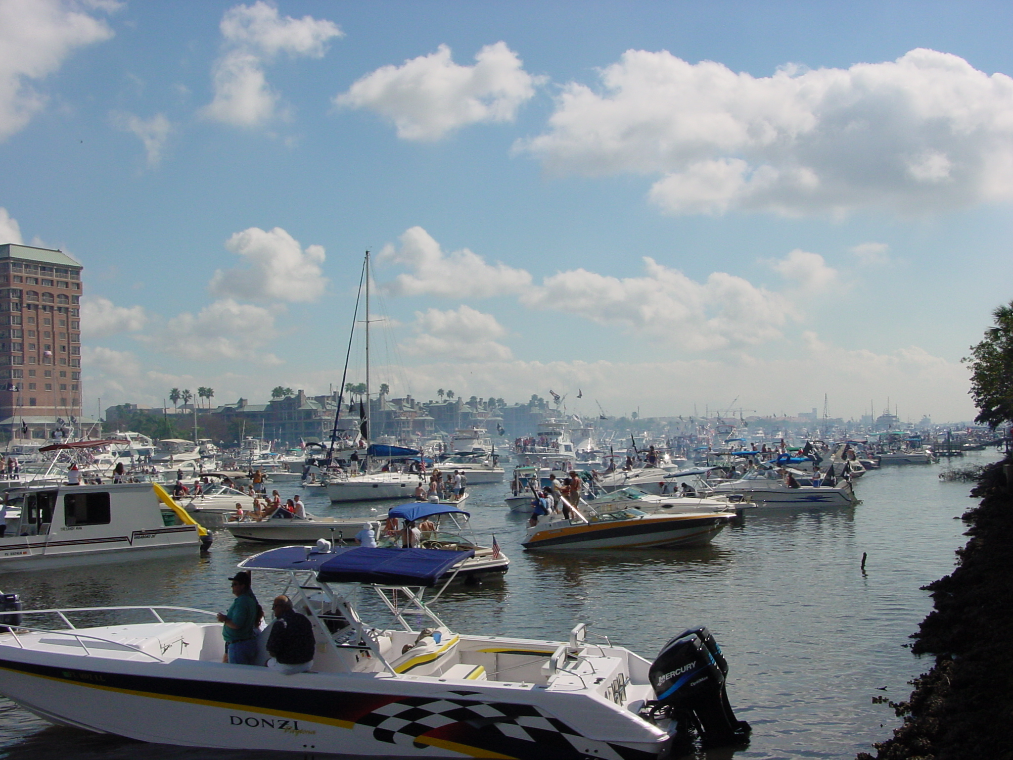 This photograph is of hundreds of boats watching the Gasparilla Pirate Fest, which is held yearly in Tampa, Florida.